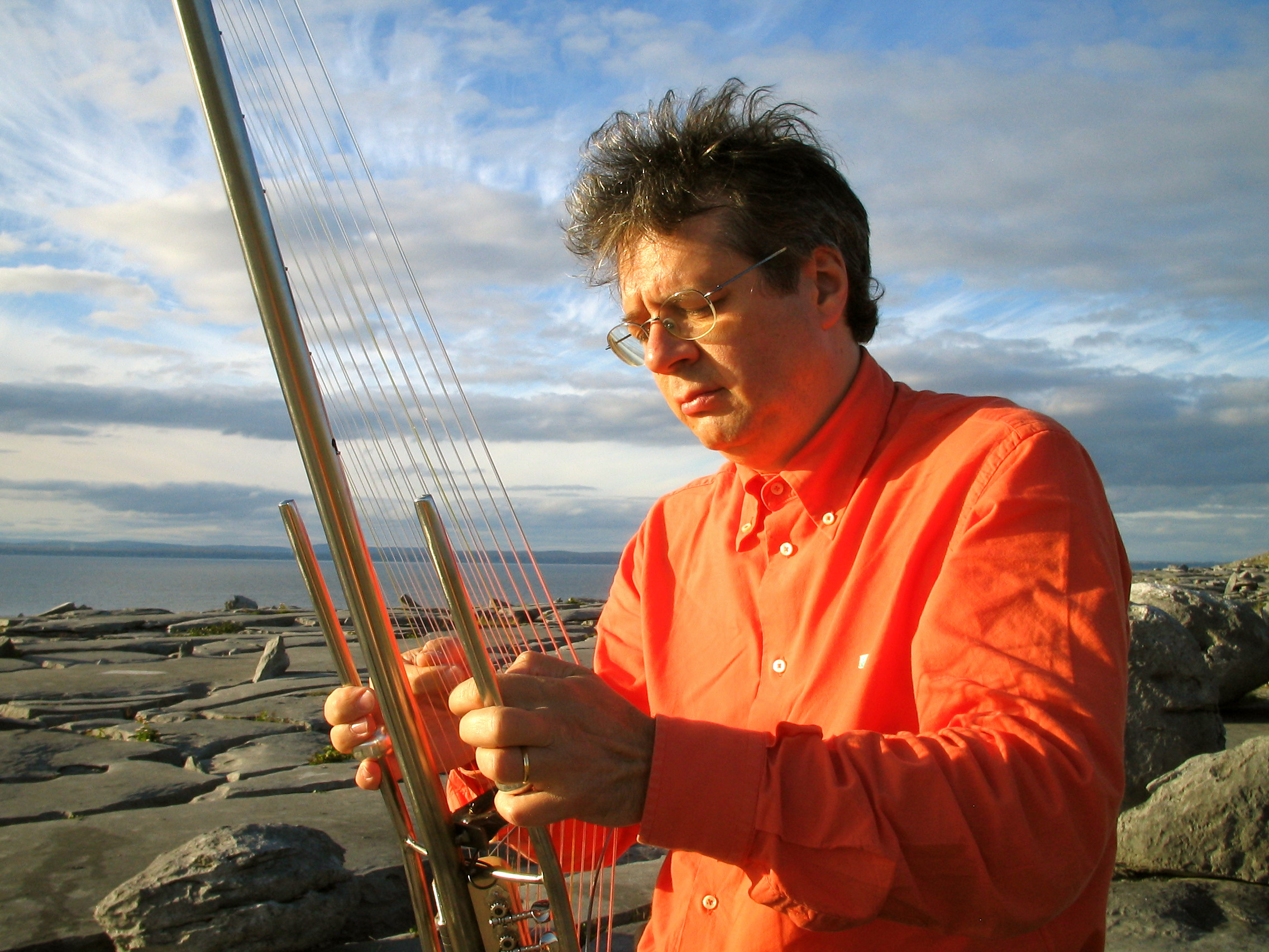 Jacques Burtin playing the gravi-kora. Jacques Burtin jouant de la gravi-kora.